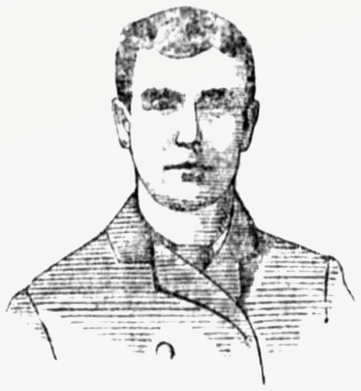 An illustration of professional baseball player James Hillery